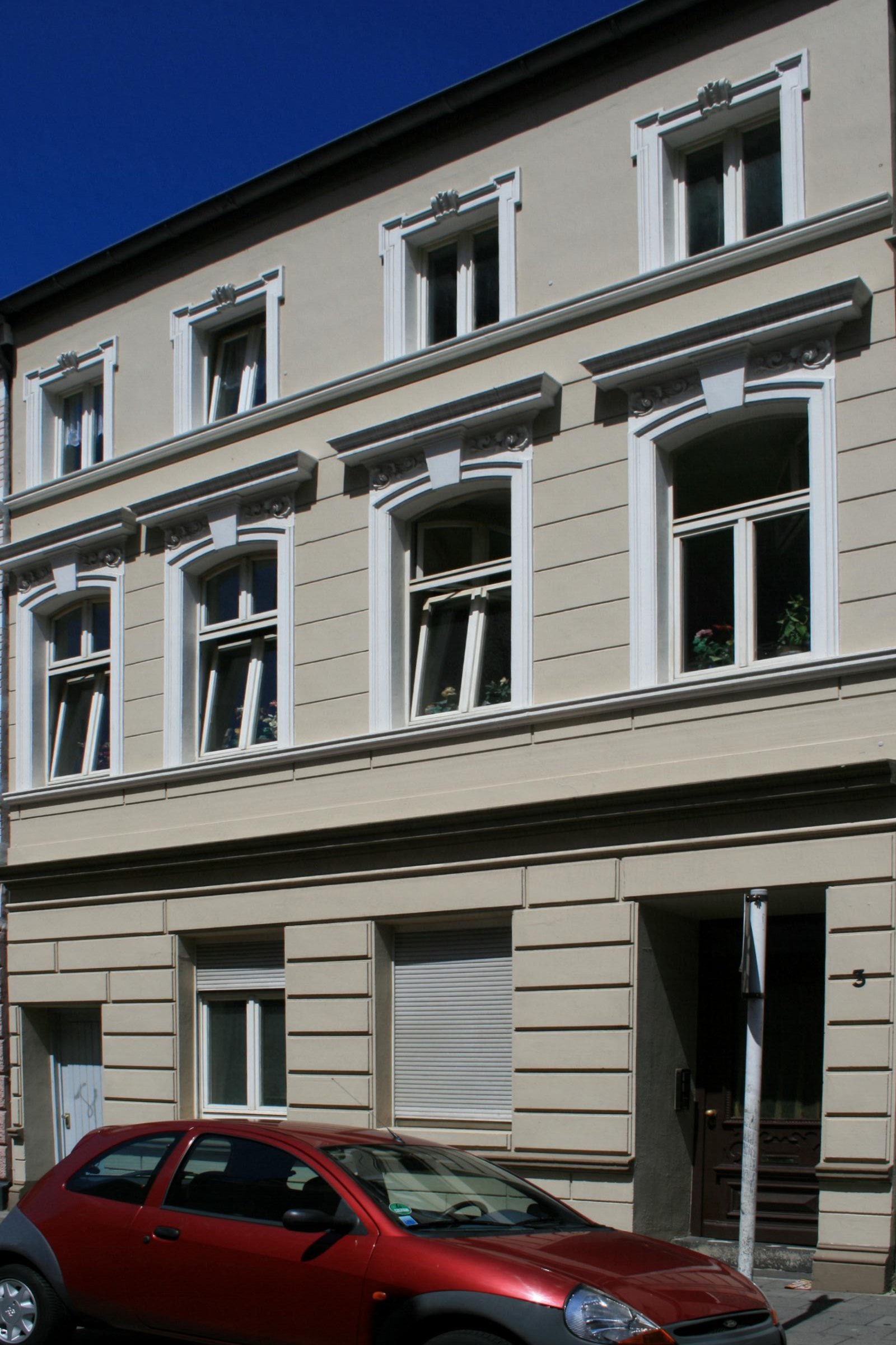 Cultural heritage monument No. M 019 in Mönchengladbach